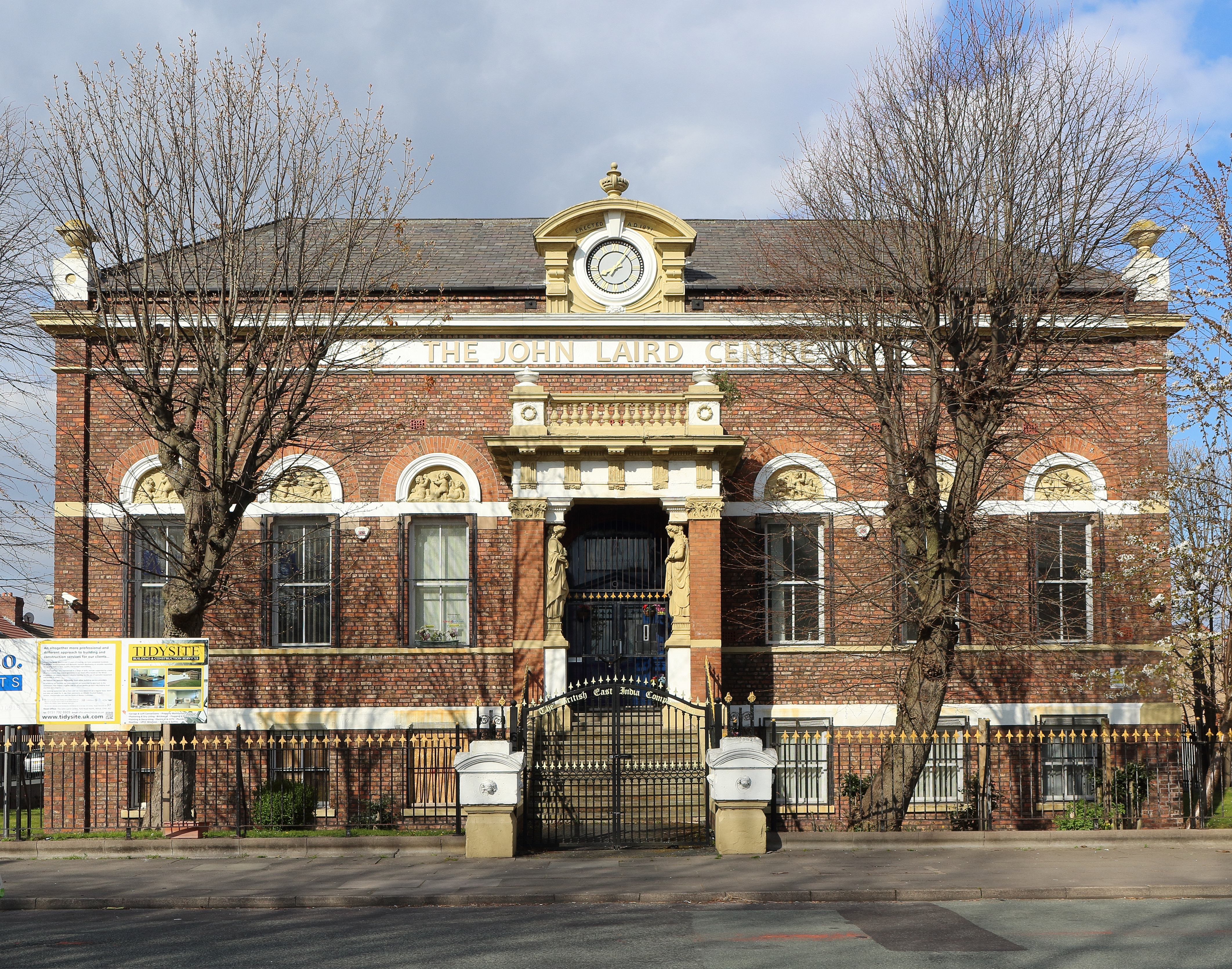 John Laird Centre viewed across Park Road North. Formerly a College of Art.